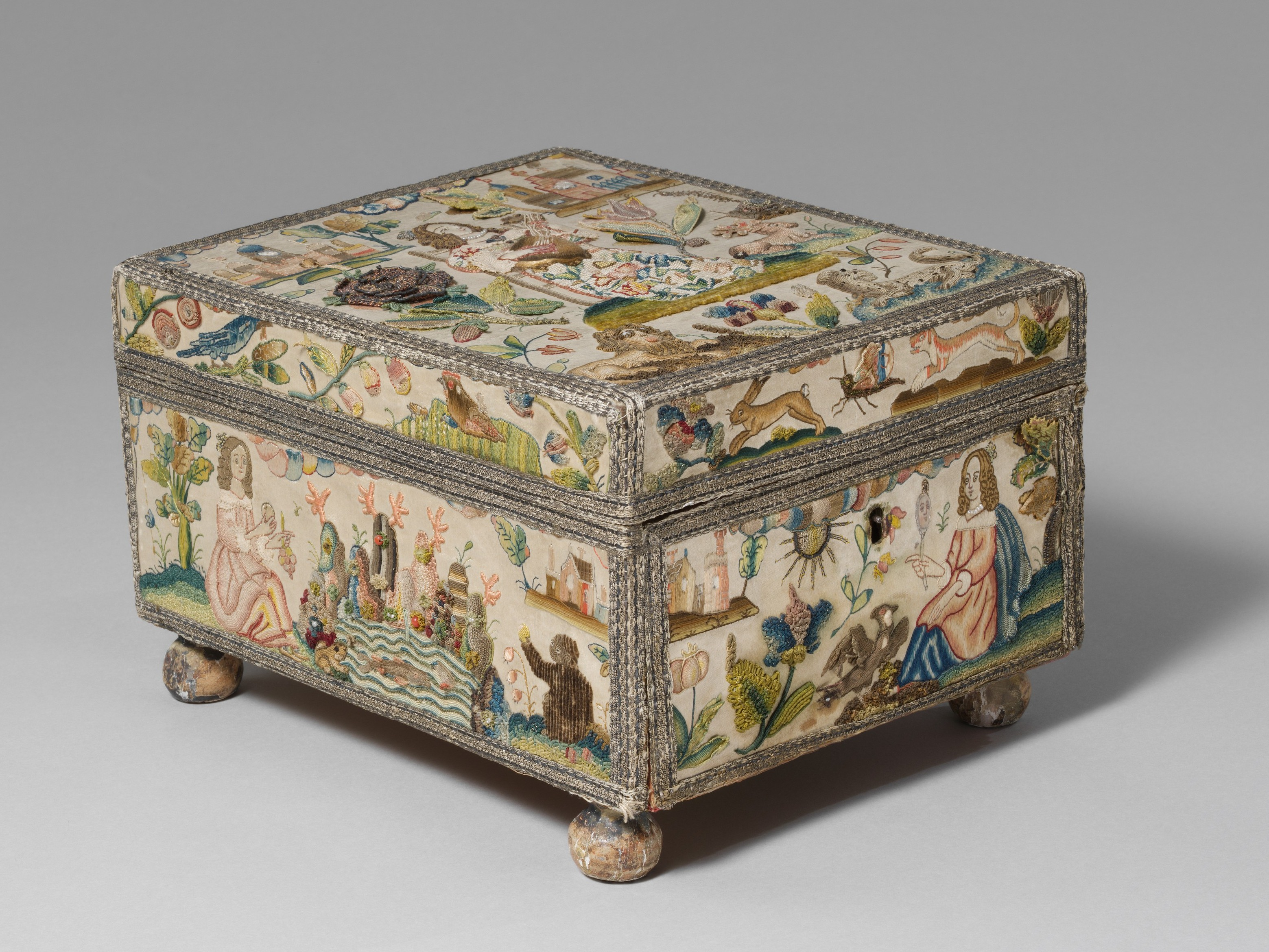 British; Cabinet; Textiles-Embroidered